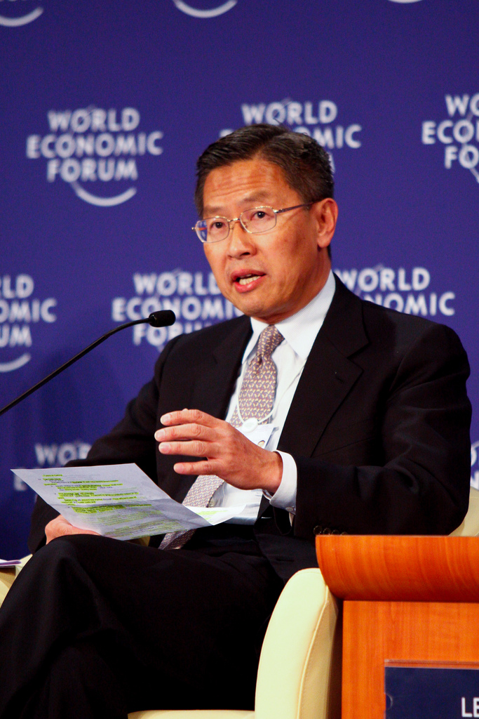 James Riady, deputy chairman of the Lippo Group, at the World Economic Forum on East Asia on June 7, 2010